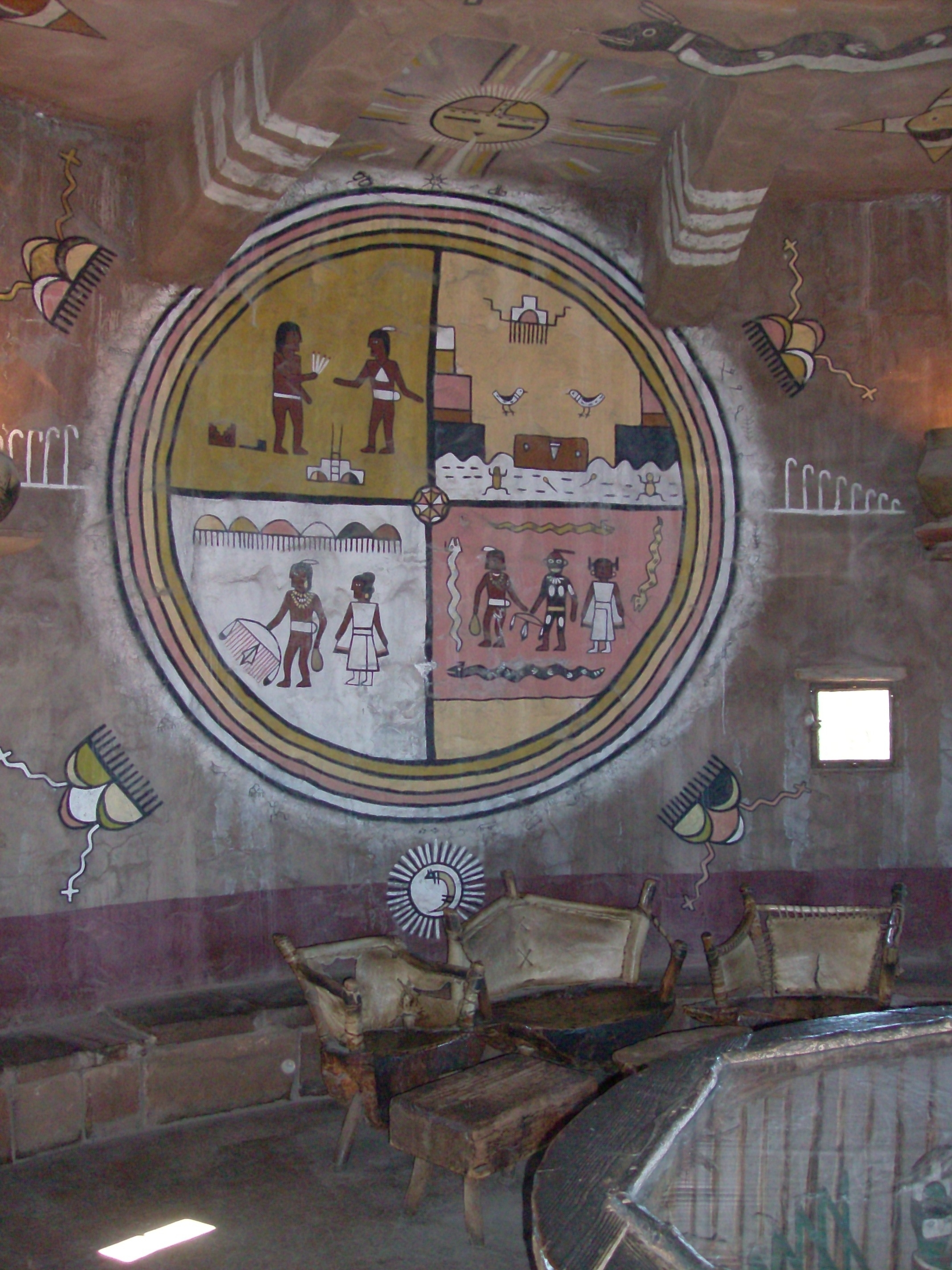 Fred Kabotie (c.1900 - 1986) was a famous Hopi artist. Born Nakayoma (Day After Day) into the Bluebird Clan at Songo`opavi, Second Mesa, Arizona, Kabotie attended the Santa Fe Indian School, and learned to paint. In 1920, he entered Santa Fe High School, and commenced a long association with Edgar Lee Hewett, a local archaeologist, working at such excavations as Jemez Springs, New Mexico and Gran Quivira. He also sold paintings for spending money. In 1926, Kabotie moved to Grand Canyon, Arizona, working for the Fred Harvey Company as a guide. After various other jobs and travel, he was hired in 1932 by Mary Colter to paint his first murals at her new Desert View Watchtower. Kabotie went on to a distinguished career as a painter, muralist, illustrator, silversmith, teacher and writer of Hopi Indian life. He continued to live at Second Mesa. Kabotie was instrumental in establishing the Hopi Cultural Center and served as its first president. Fred's son Michael Kabotie (born 1942) is also a well-known artist. Source: Jessica Welton, The Watchtower Murals, Plateau (Museum of Northern Arizona), Fall/Winter 2005. ISBN 0897341325